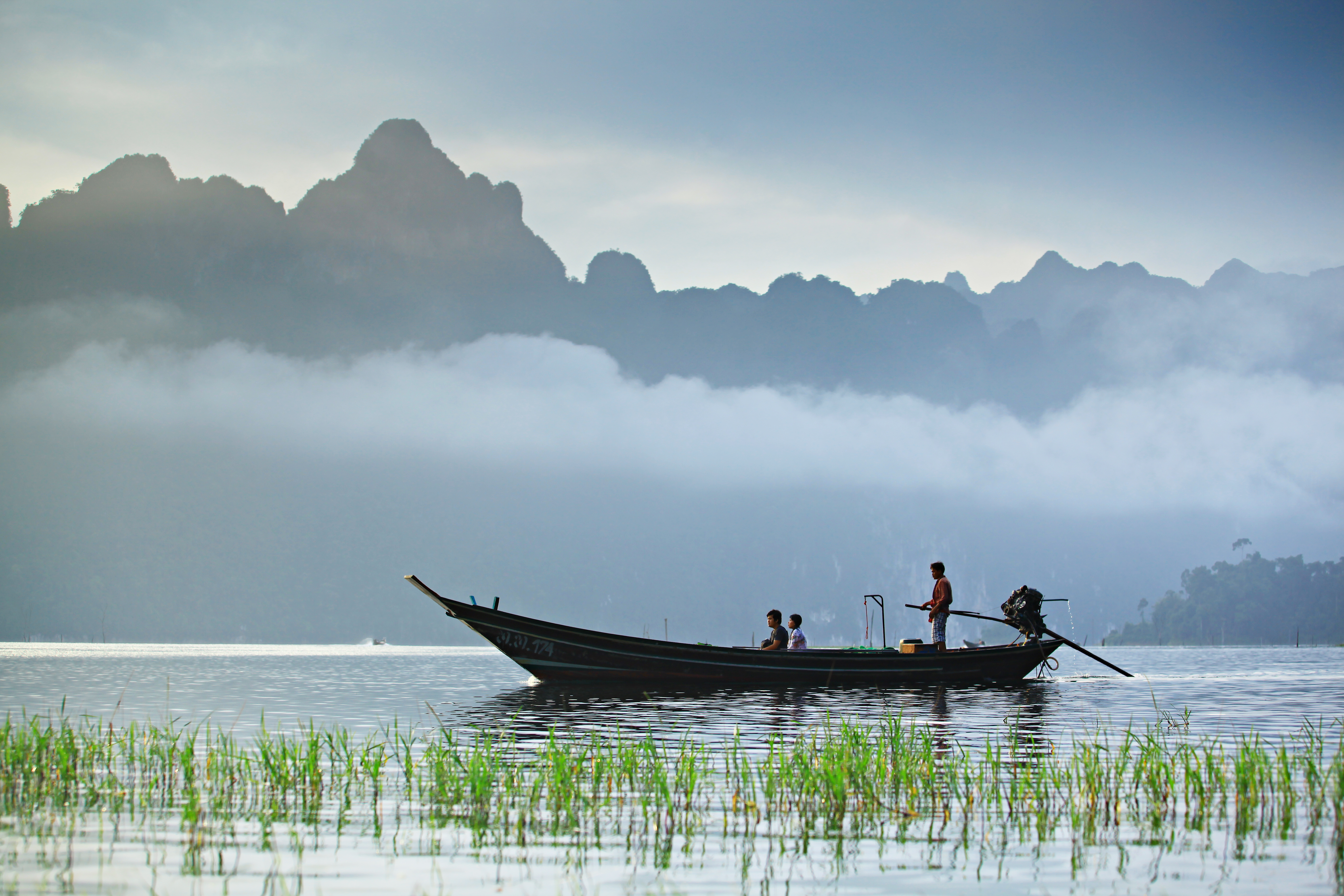 The lake of Ratchaprapha (Chiao Lan) Dam, Khao Sok National Park, Surat Thani Province